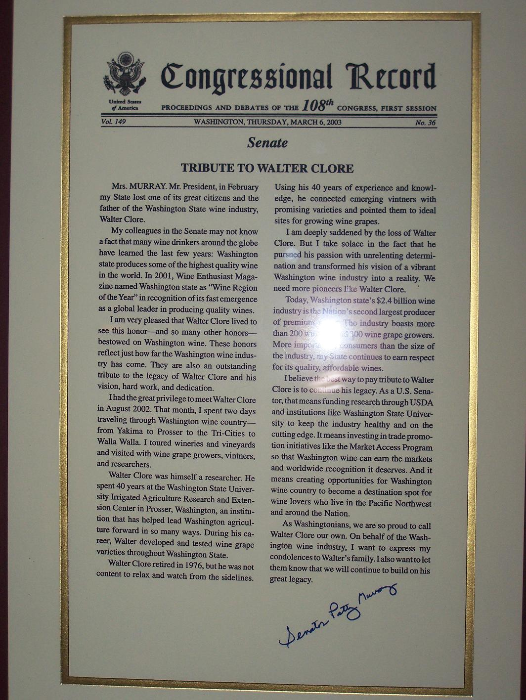 Image of Vol 149:36 of the congressional record paying tribute to Dr. Walter Clore signed and submitted by Sen. Patty Murray. First published March 6th, 2003. Photo taken at Columbia Crest Winery in Patterson, WA.